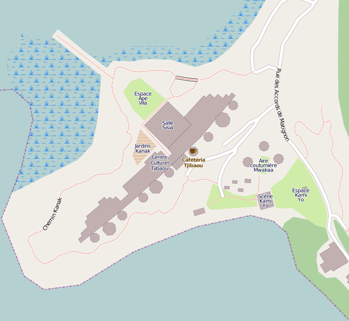 Jean-Marie Tjibaou Cultural Centre